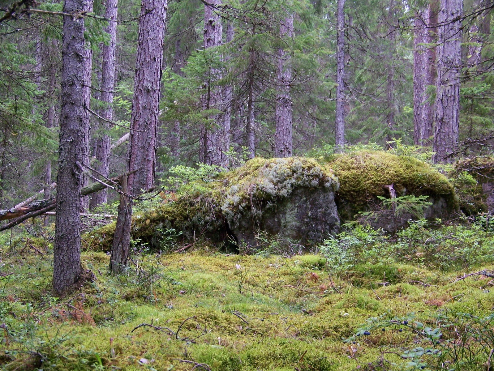 Rock covered by moss, at Skuleskogen National Park